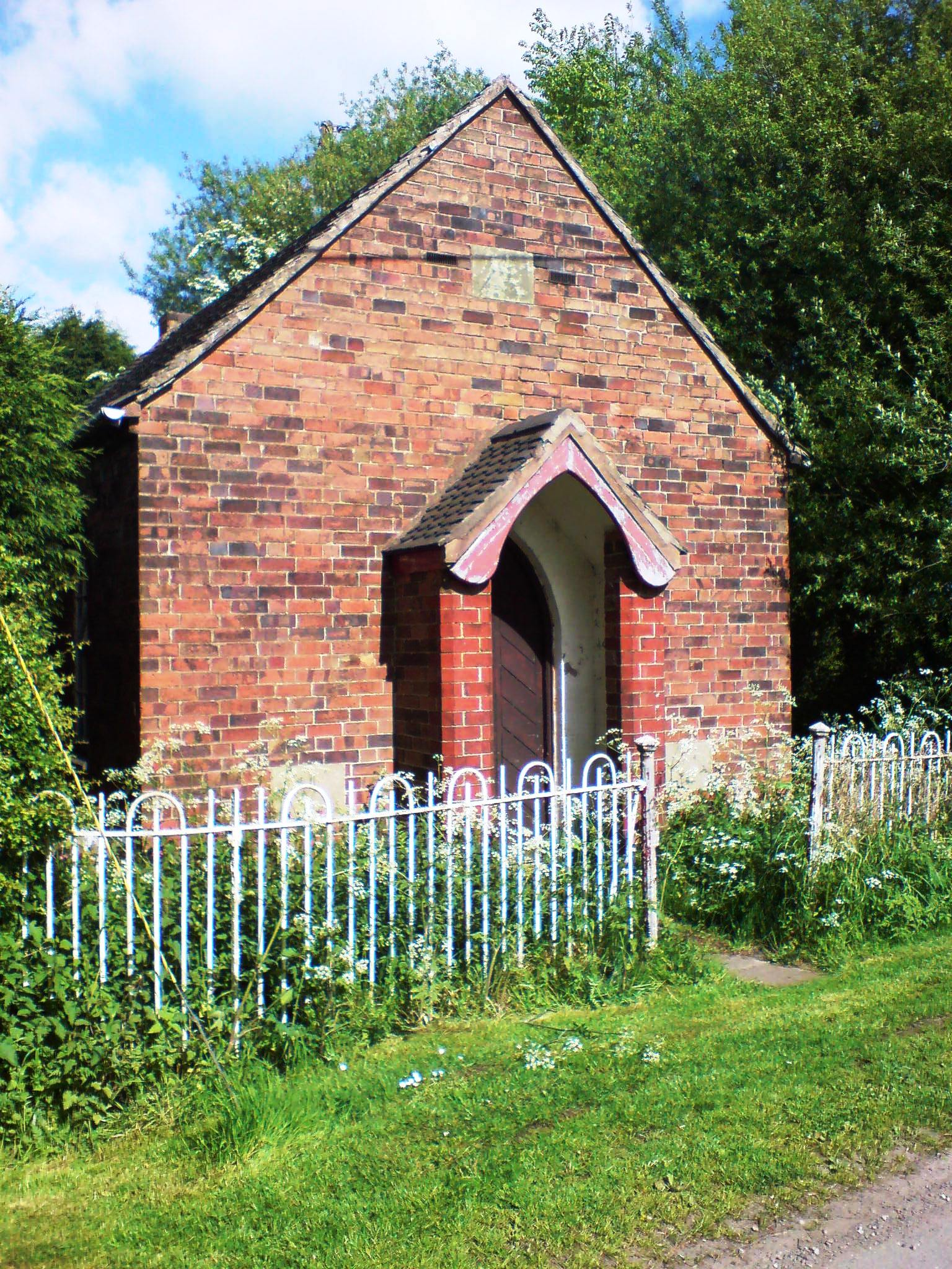 Former Methodist chapel, Coton Clanford, Staffordshire